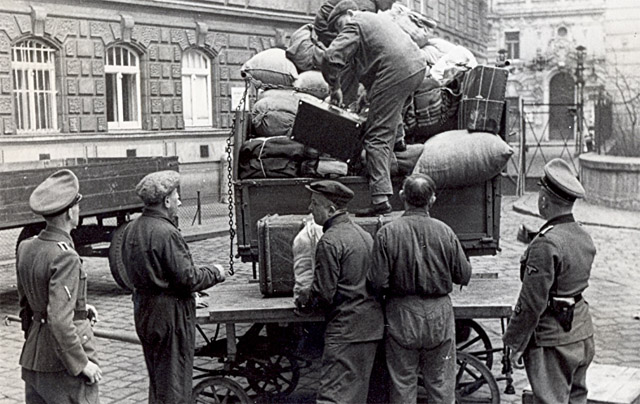 Deportation of Austrian Jews. Loading a truck with luggage of deported Jews. Vienna, 1942